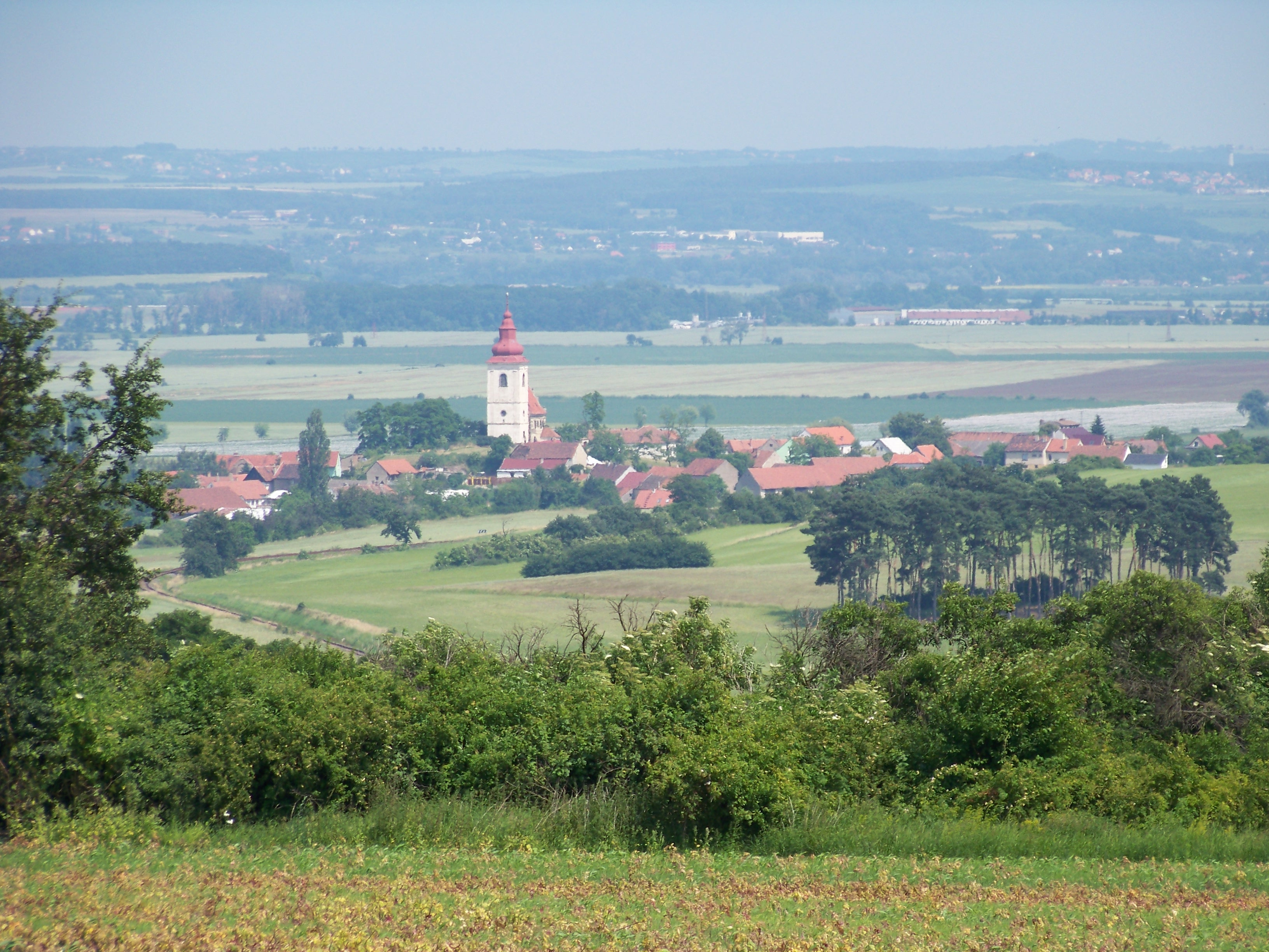 Kostomlaty pod Řípem, Litoměřice District,Ústí nad Labem Region, the Czech Republic. A view from Říp Mountain. Object location50° 21′ 40″ N, 14° 19′ 54″ E